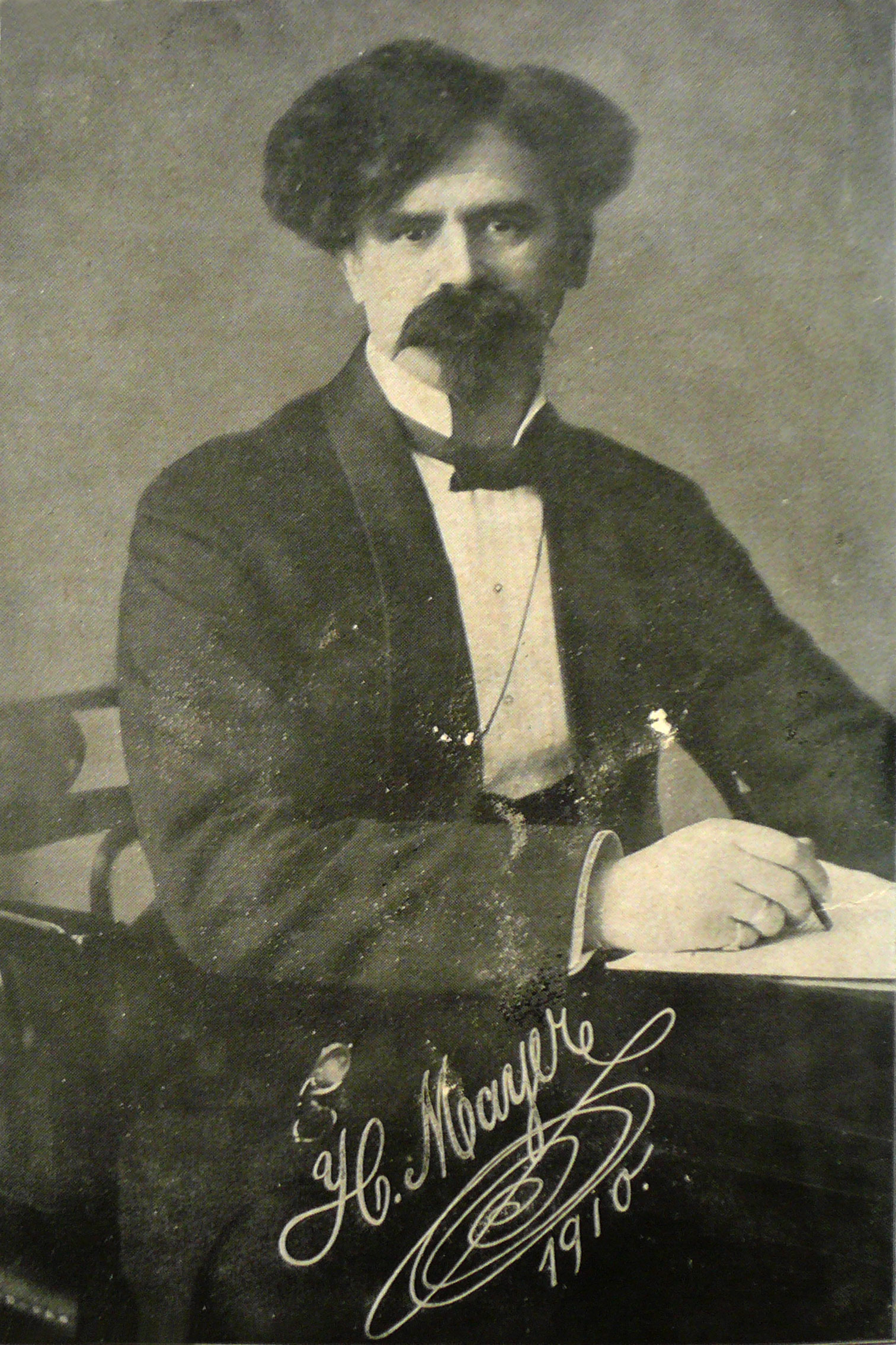 The German author, inventor, philosopher and tradesman Hermann Alois Mayer.